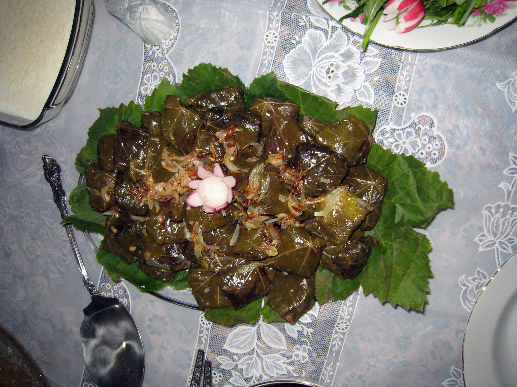 Iranian Dolma , Tabriz